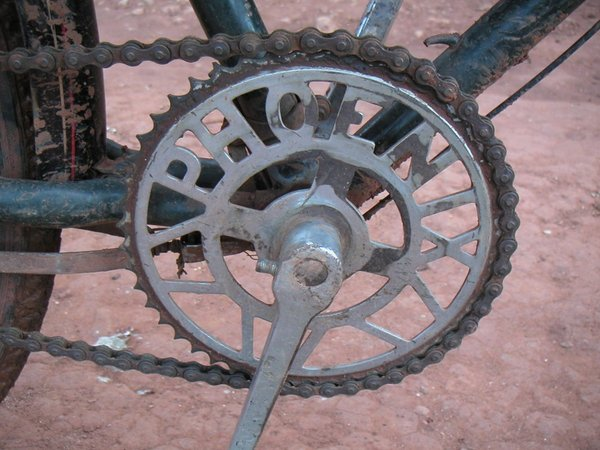 Phoenix chainring